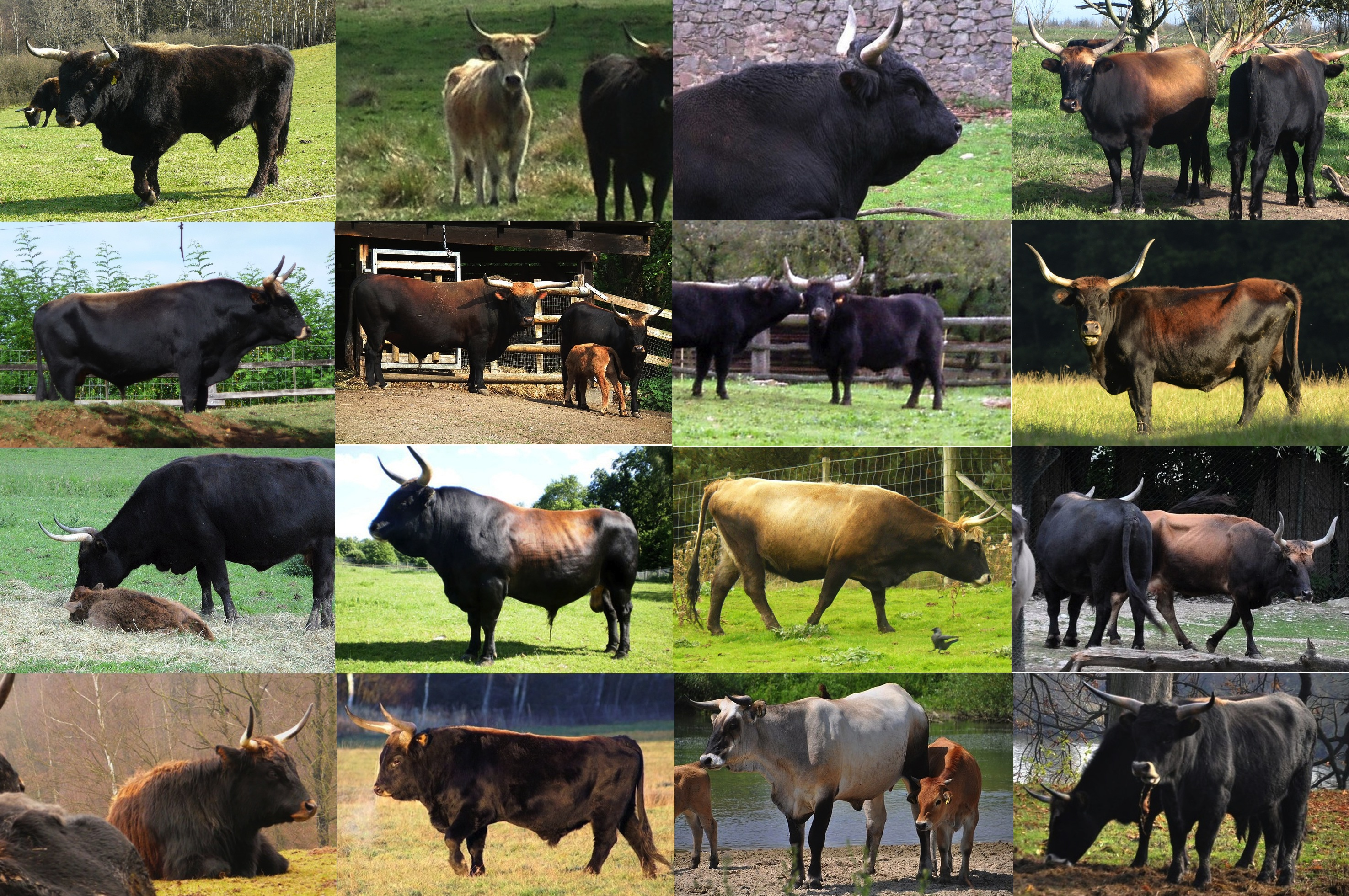 Compilation of photos of Heck cattle from different locations and countries.